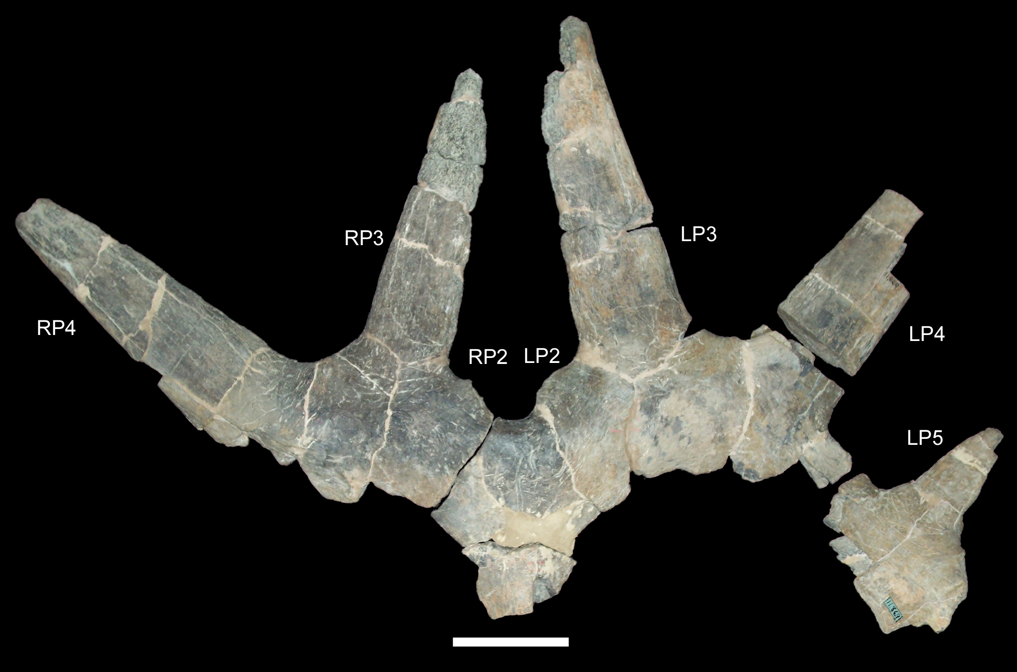 USNM 11869, holotype of Rubeosaurus ovatus. Caudal parietal bar in dorsal view. Abbreviations: LP2, left P2 process; LP3, left P3 process; LP4, left P4 process; LP5, left P5 process; RP2, right P2 process; RP3, right P3 process; RP4, right P4 process. Scale bar equals 10 cm. Copyright Smithsonian Institution, all rights reserved.